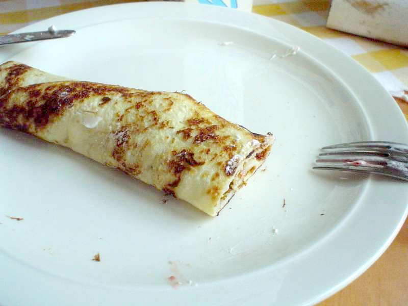 Crepe - Lätty rulla